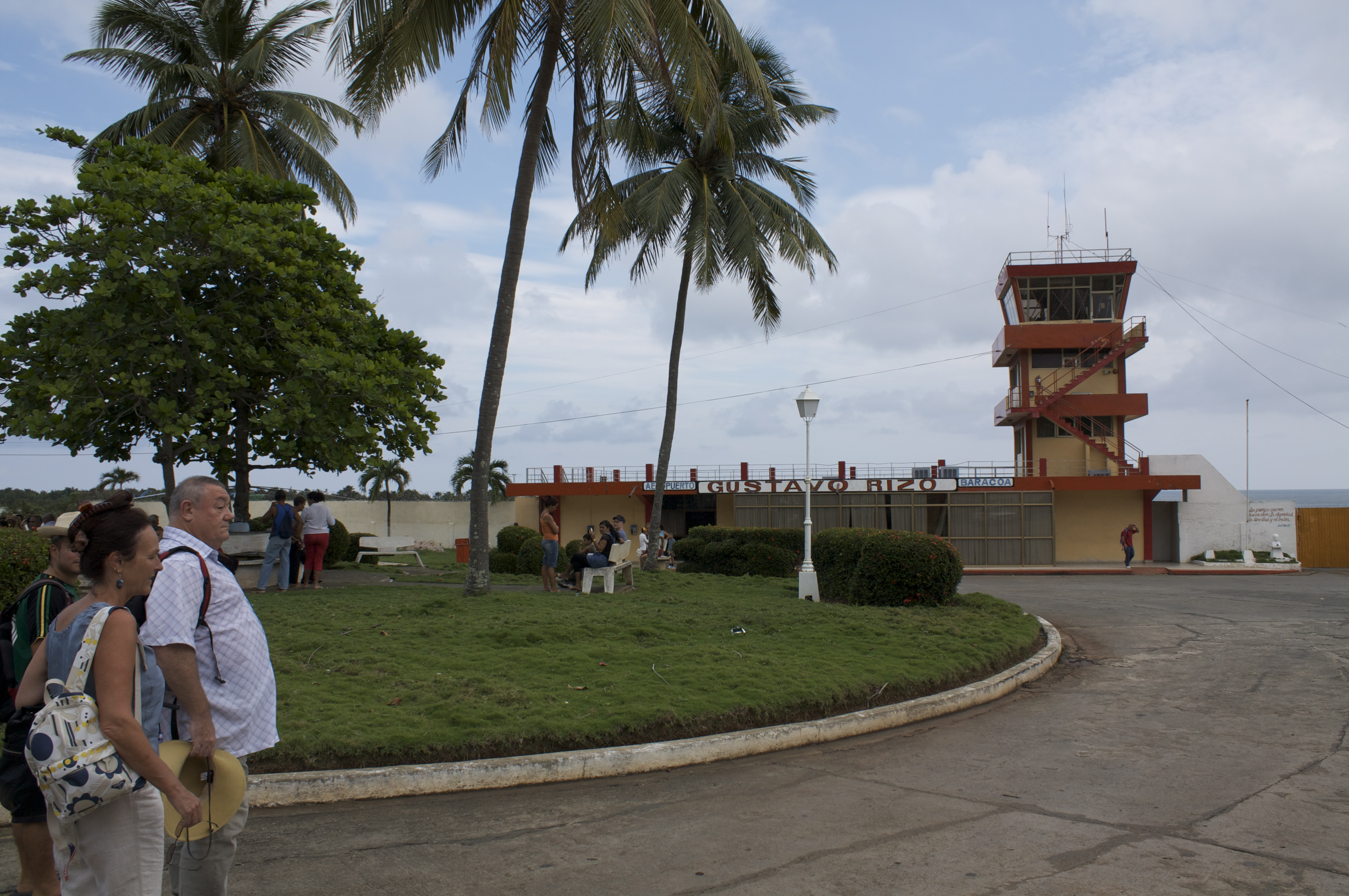 Baracoa Airport Tiny airport, only had two rooms.